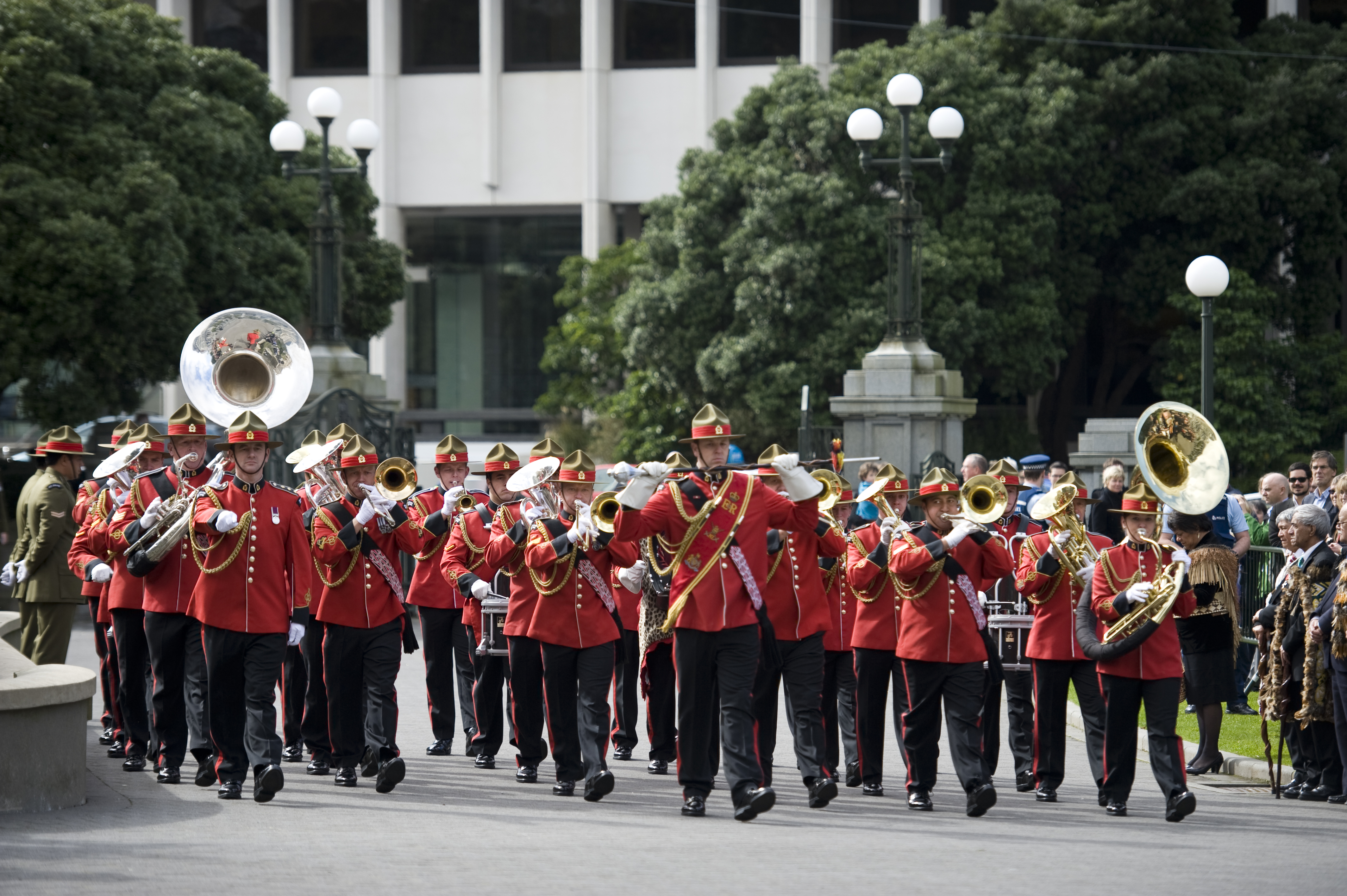 Swearing in ceremony of LTGEN Sir Jerry Mateparae as Governor-General at Parliament. The Defence Force provided a 100 man Royal Guard of Honour for the occasion. The band and guard march into place. 20110831_WN_S1015650_0002.jpg Crown Copyright 2011, NZ Defence Force – Some Rights Reserved.